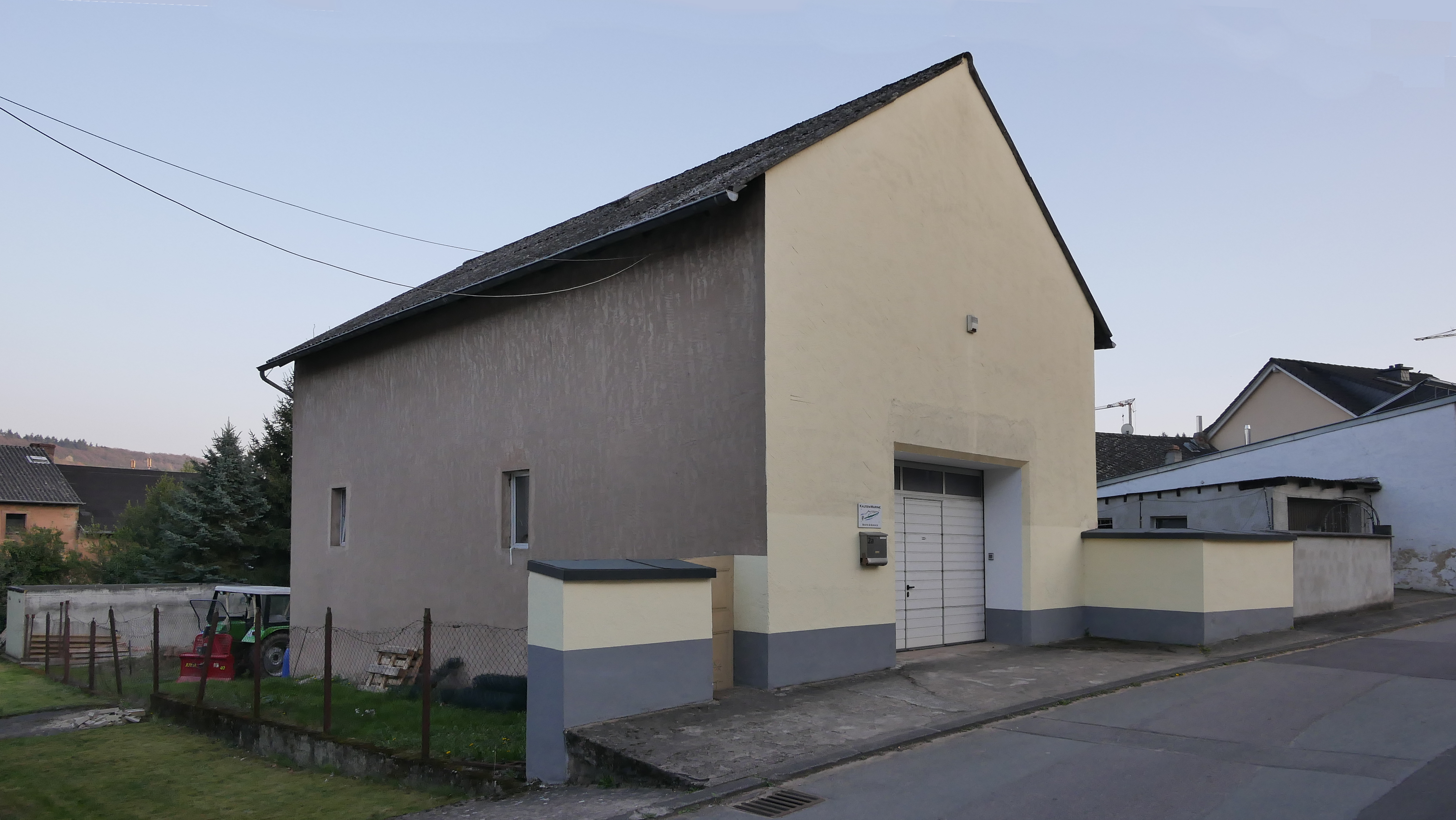 Konz-Könen (Germany, Rhineland-Palatinate), former synagoge